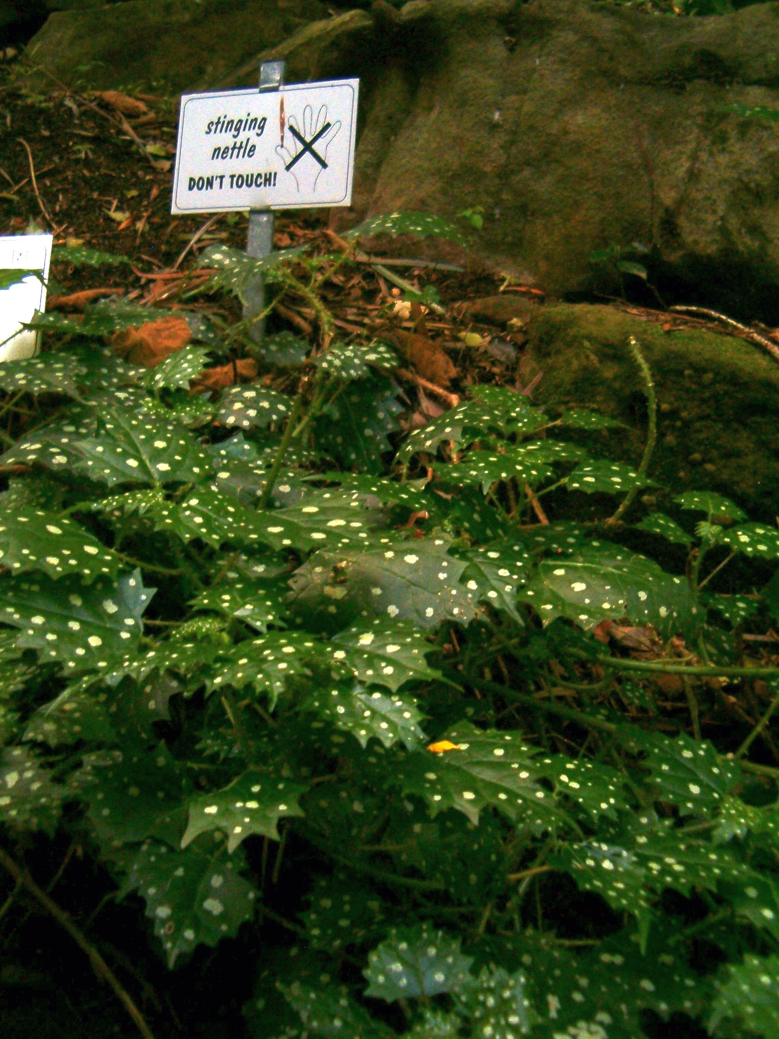 At Kirstenbosch National Botanical Gardens Species Laportea grossa